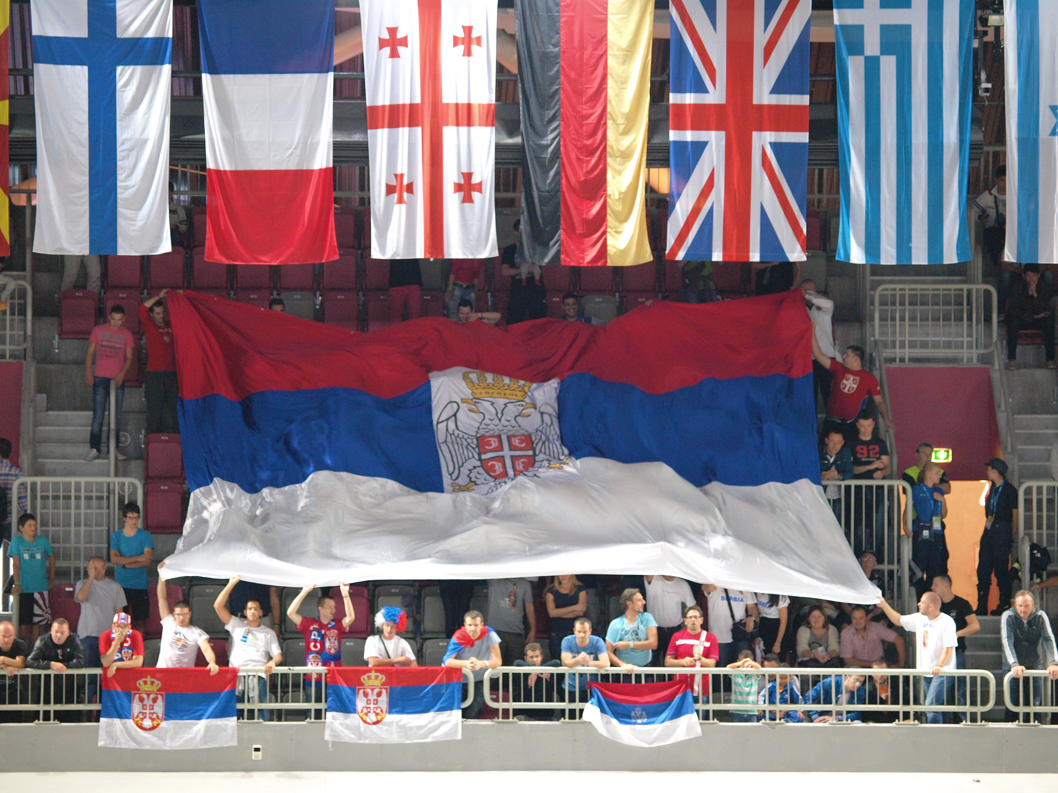 Eurobasket 2013, Serbian fans.